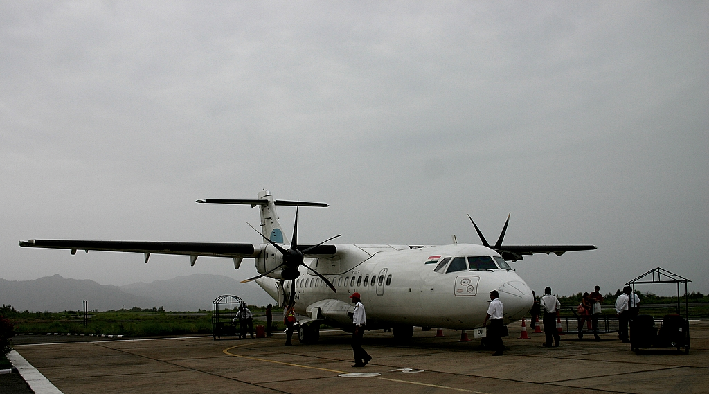 Airport at Shimla. Air Deccan flight